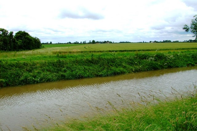 Westville View Southwest from Westville Road looking across the West Fen Drain toward The Manor. Bunkers Hill.